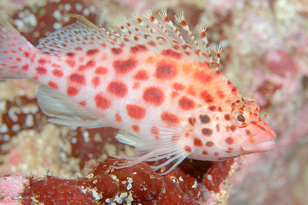 Coral Hawkfish (Cirrhitichthys oxycephalus), Galapagos Islands, Ecuador. Image taken by Clark Anderson/Aquaimages.